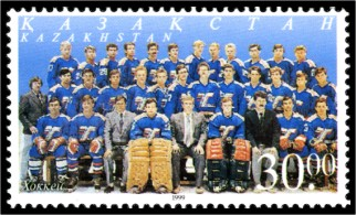 Stamp of Kazakhstan